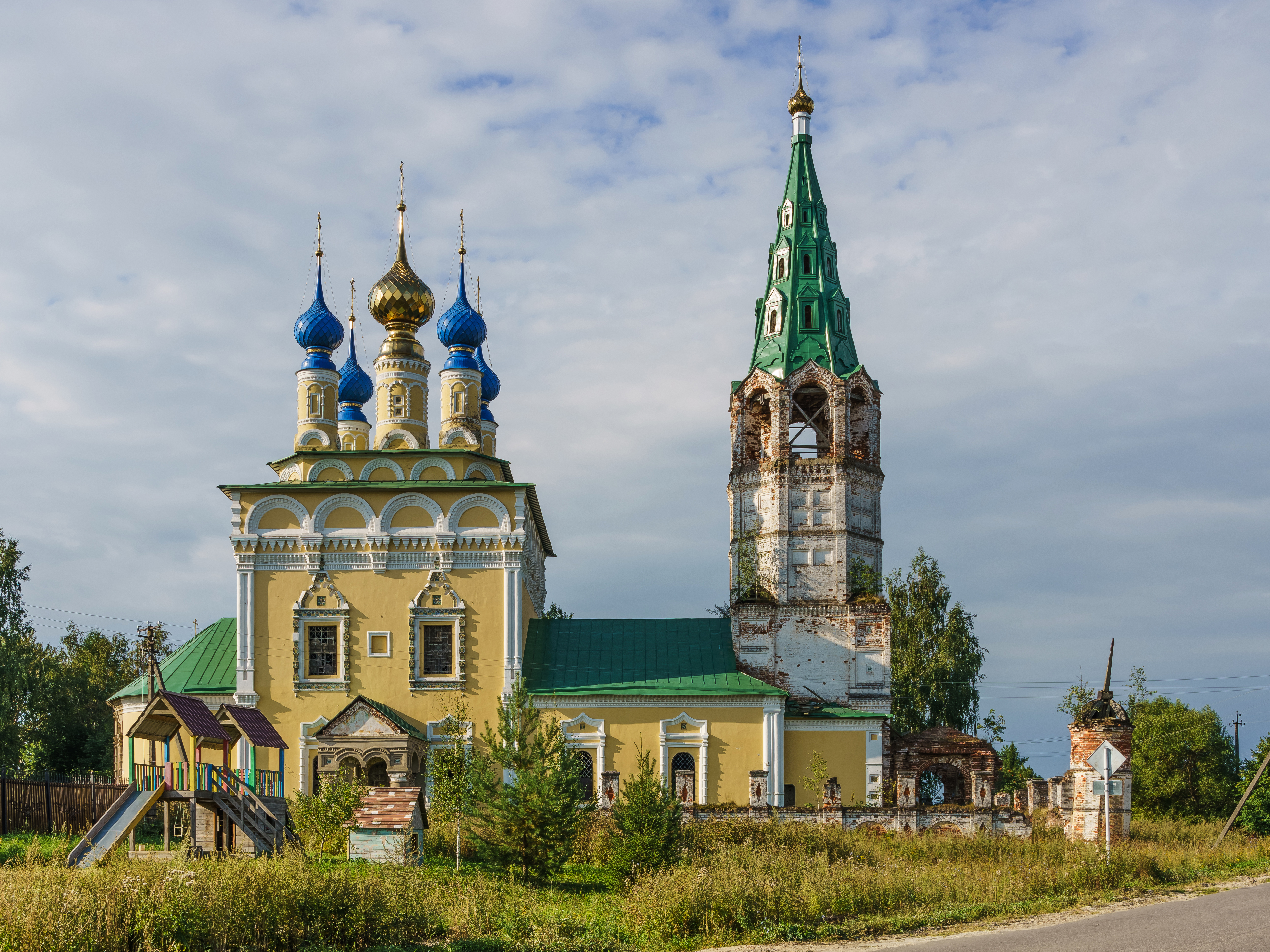 Ensemble of churches and cemetery in Goritsy, Ivanovo Oblast, Russia